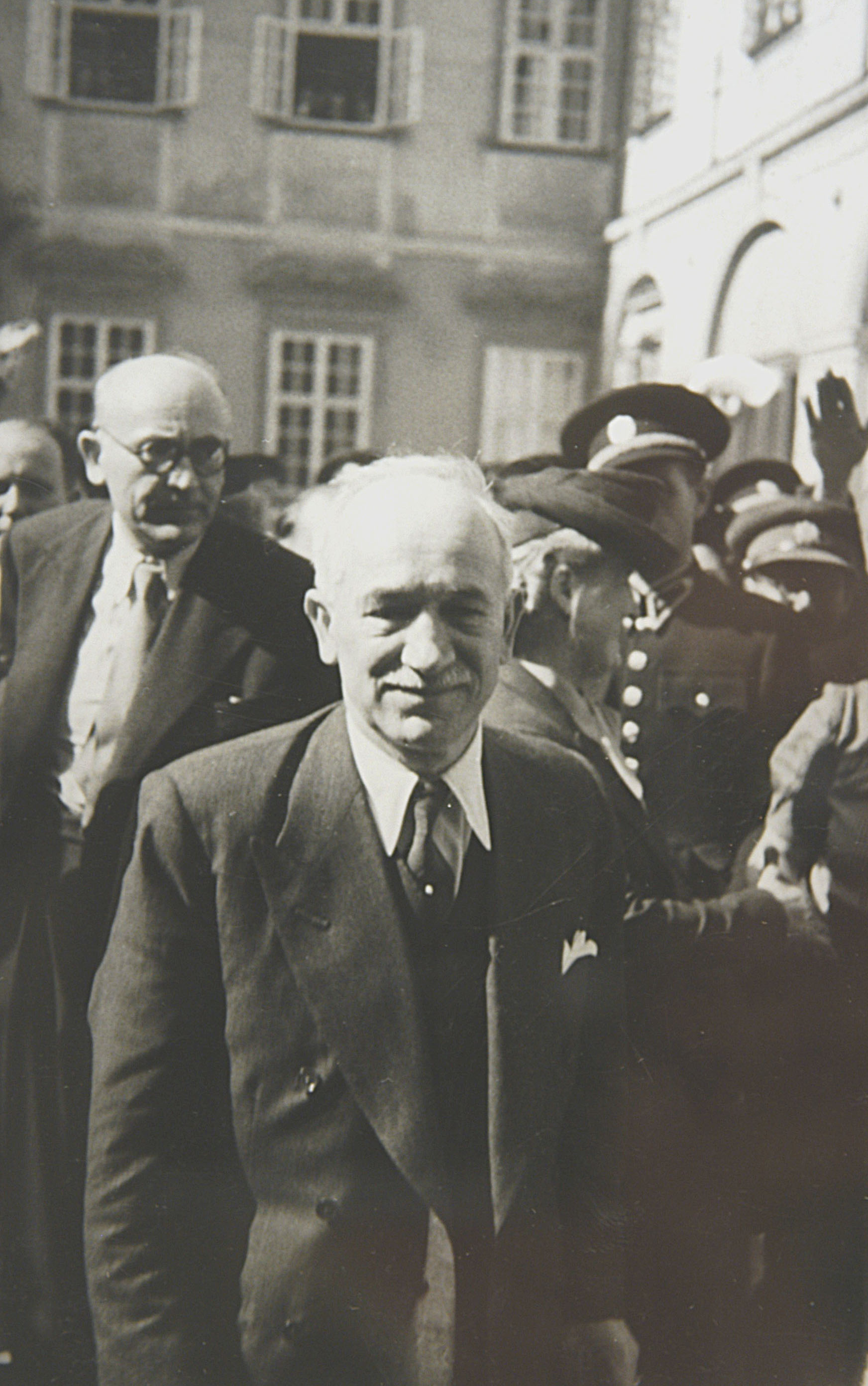 President of Czechoslovakia Edvard Benes during a visit of police department of Brno